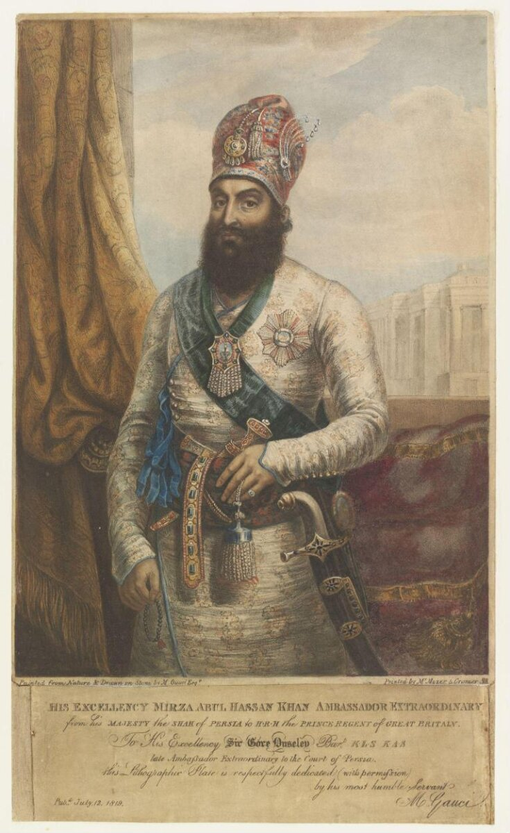 1820 Portrait of w: Mirza Abolhassan Khan Ilchi